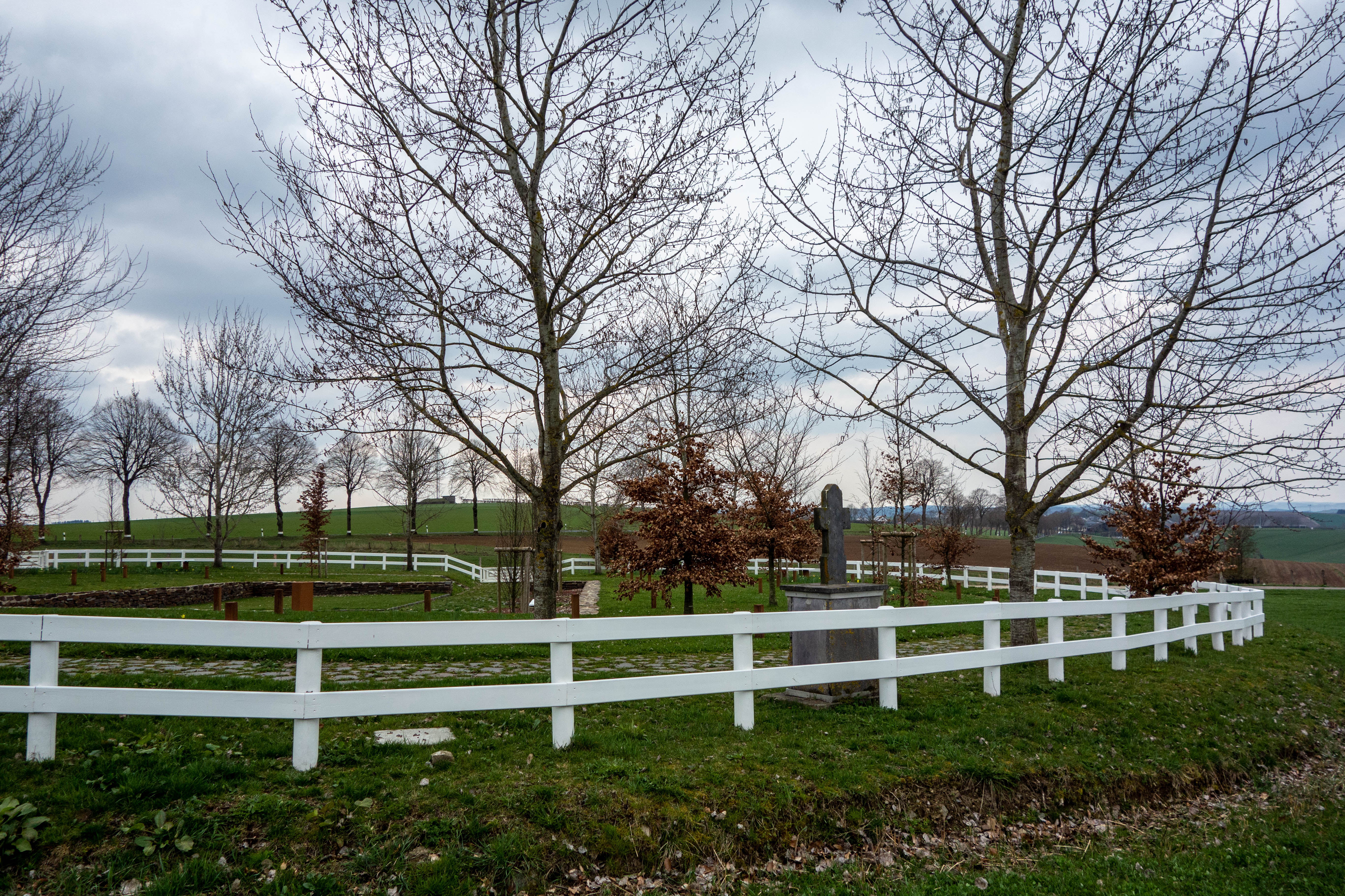 Buchebuerg